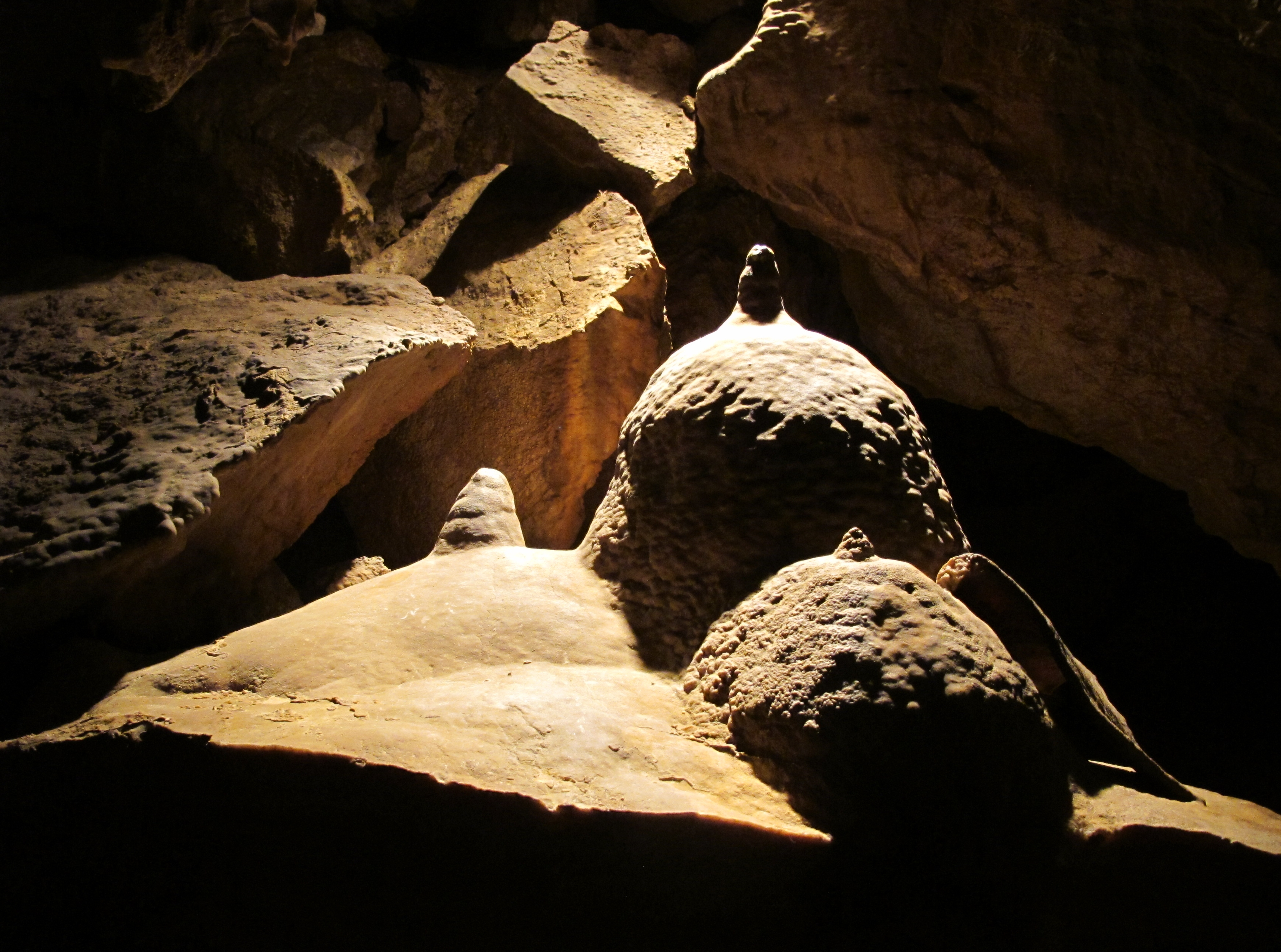 National natural monument Bozkovské dolomitové jeskyně (The Bozkov Dolomite Caves) near Bozkov in Semily District - Czech Republic